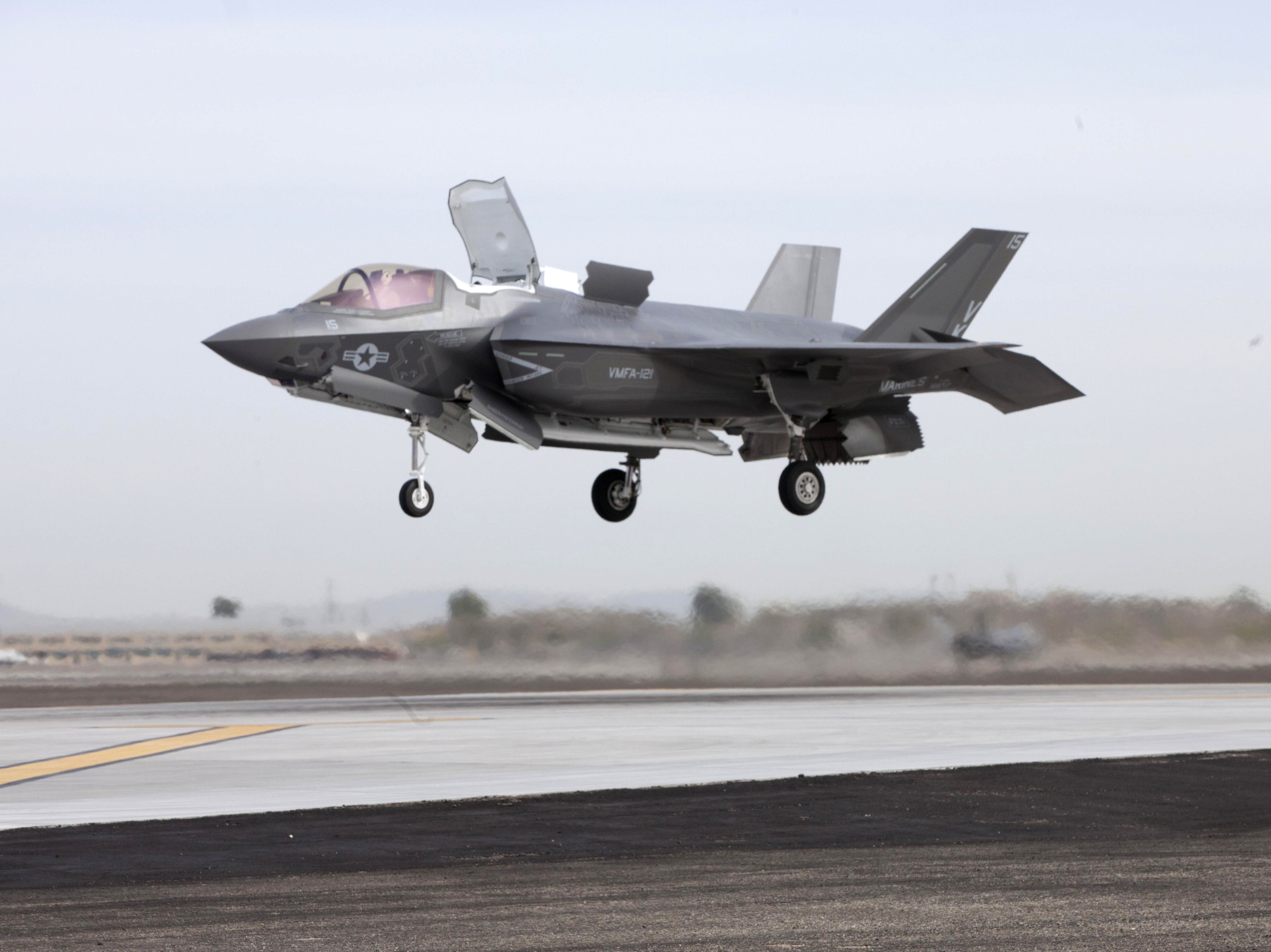 A U.S. Marine Corps Lockheed Martin F-35B Lightning II from Marine Fighter Attack Squadron 121 (VMFA-121) conducts a vertical landing on the Marine Corps Air Station Yuma, Arizona (USA), flightline on 21 March 2013. "VK-15", piloted by Maj. Richard Rusnok, an F-35B test pilot, conducted the first short take off, vertical landing outside of a testing environment.